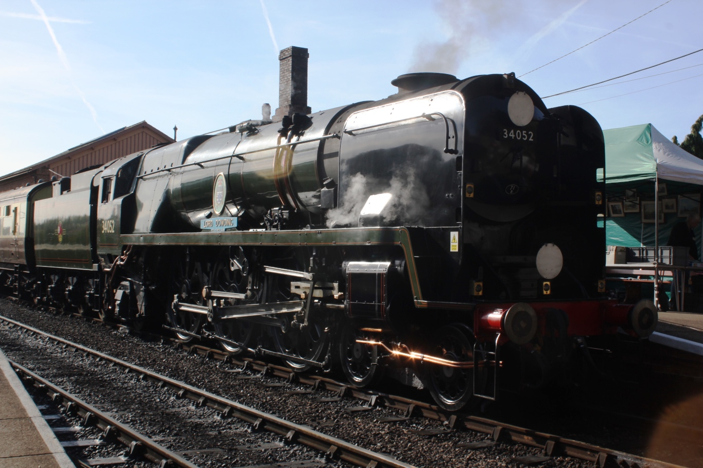 Waiting at Bishops Lydeard with a train for Minehead is 34052 Lord Dowding. This is really 34046 Braunton running with a temporary identity to commemorate the centenary of Royal Air Force in 2018.